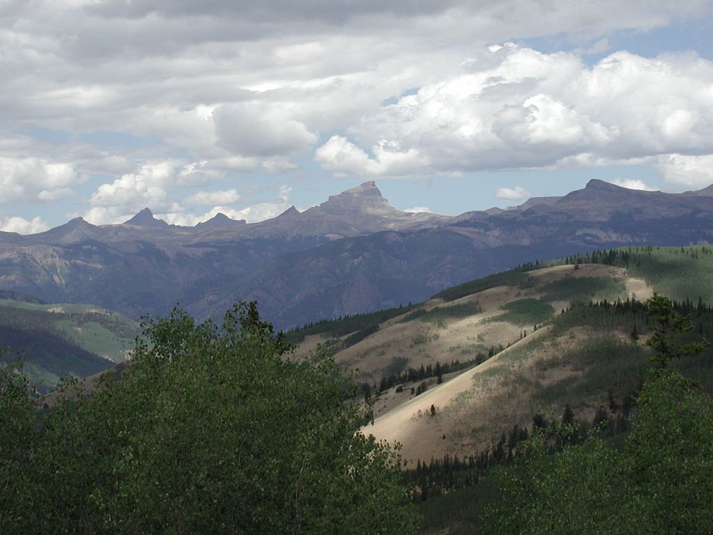 The peak at center is Uncompahgre Peak which is Colorado's 6th tallest at 14,309 feet. It is also the tallest in the San Juan Mountains and is located in Hinsdale County near Lake City. This photo is from the scenic overlook on Slumgullion Pass.